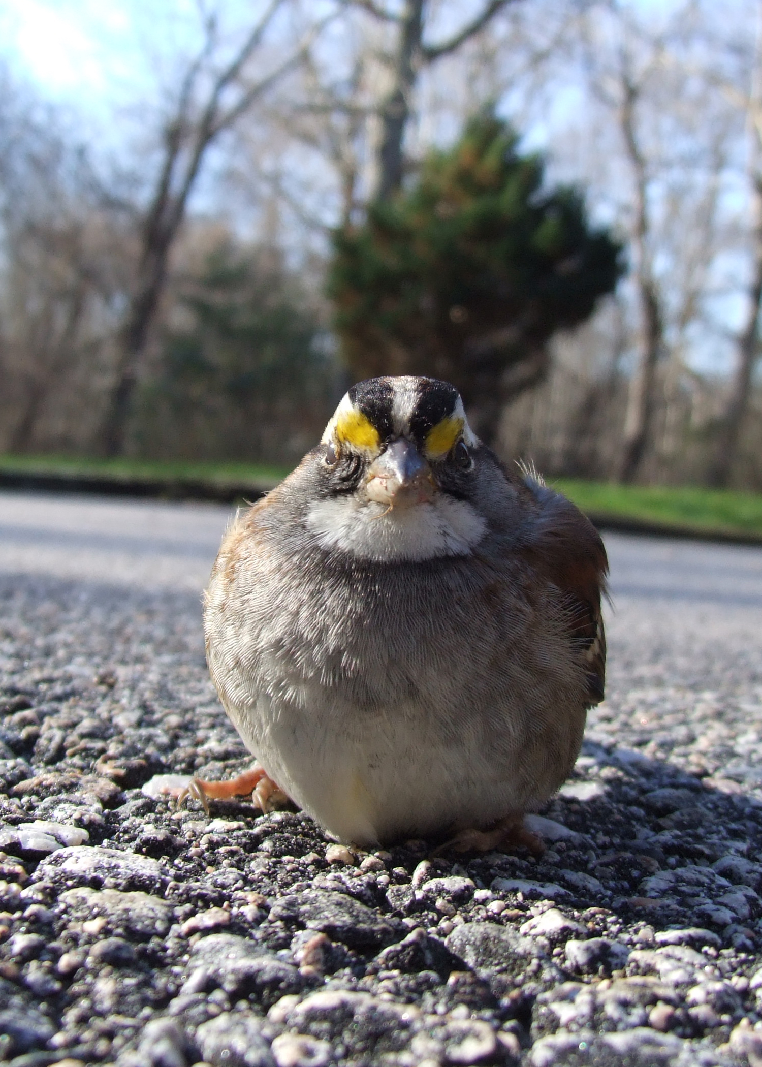 White-throated Sparrow in Rhode Island